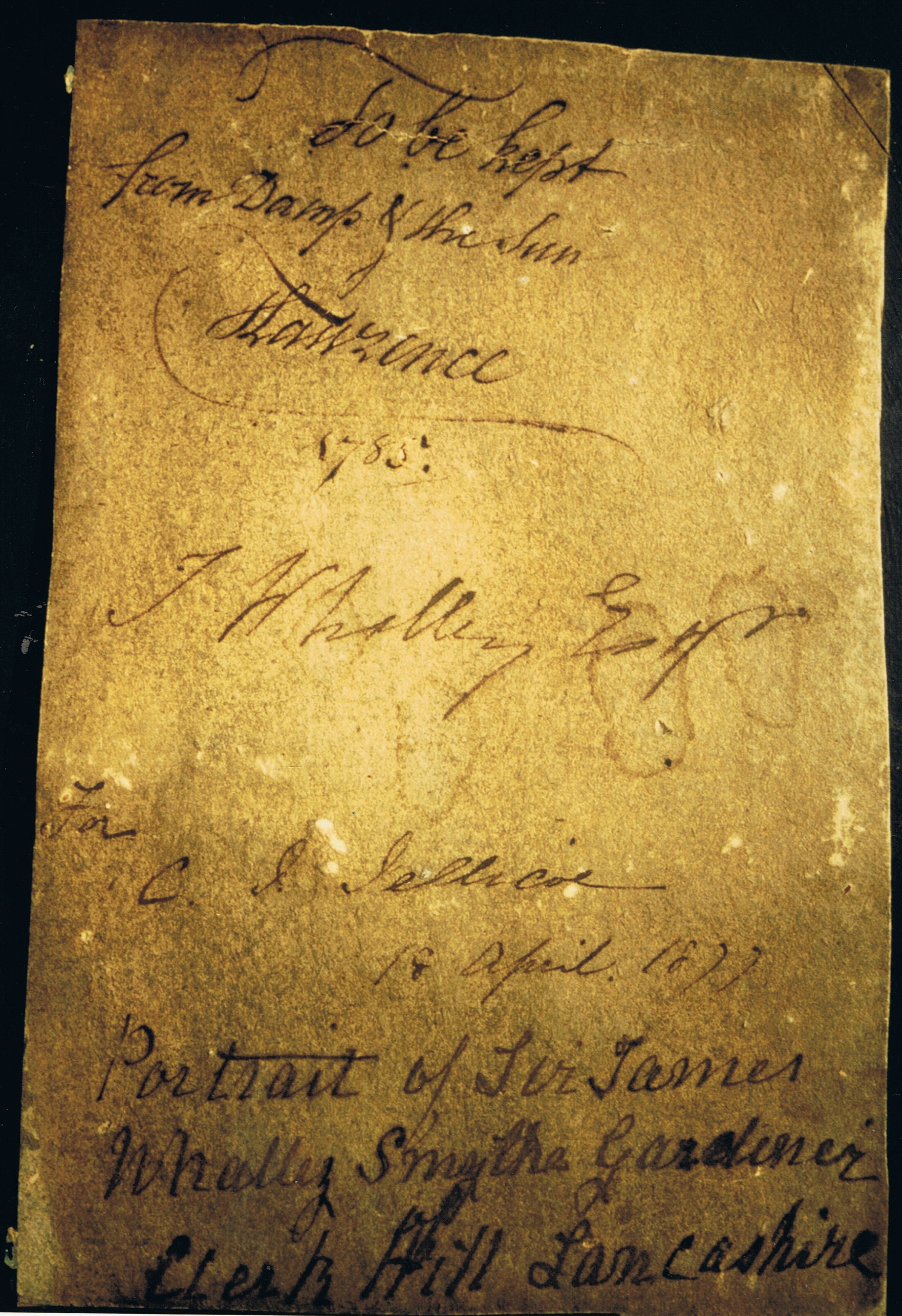 Scan of 35mm photo (both by me, R. de Salis, Rodolph (talk) 00:08, 27 May 2014 (UTC)), important emphemeral info on the back of a portrait of Sir James Whalley Smythe Gardiner, 2nd Bt. Note: ~To be kept from Damp & the Sun T.Lawrence, 1785~.